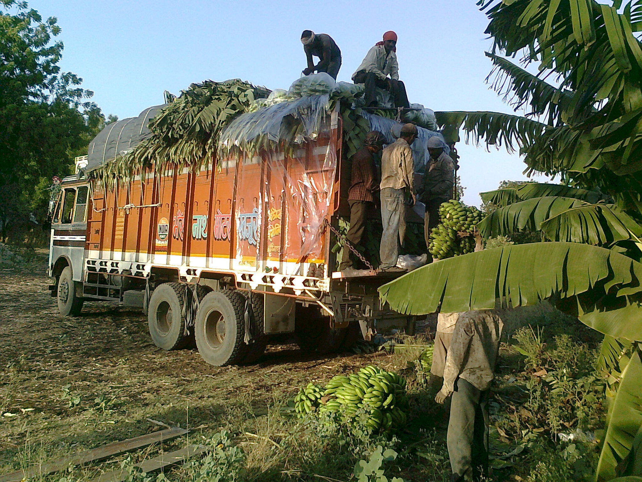 Bananas being dispatched from a banana farm at Chinawal village, India to the market